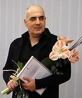 Zaza Urushadze at the Estonian Ministry of Foreign Affairs Culture Award.